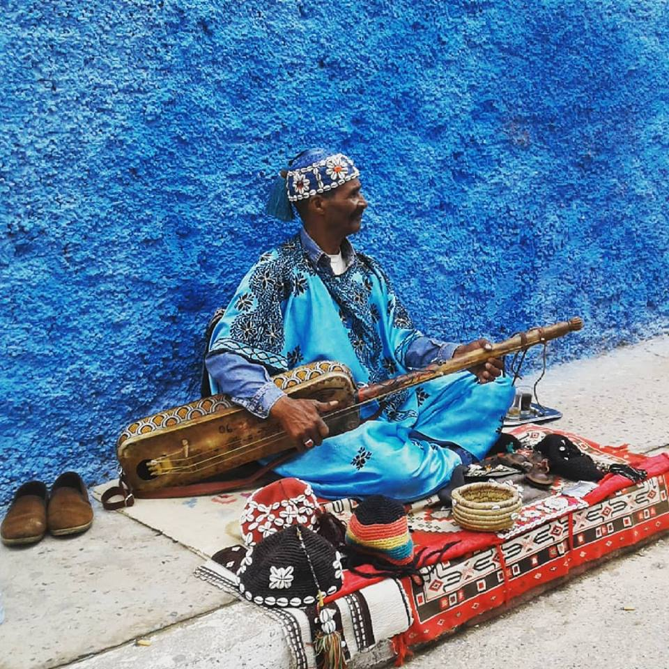 Moroccan Gnaouas Music